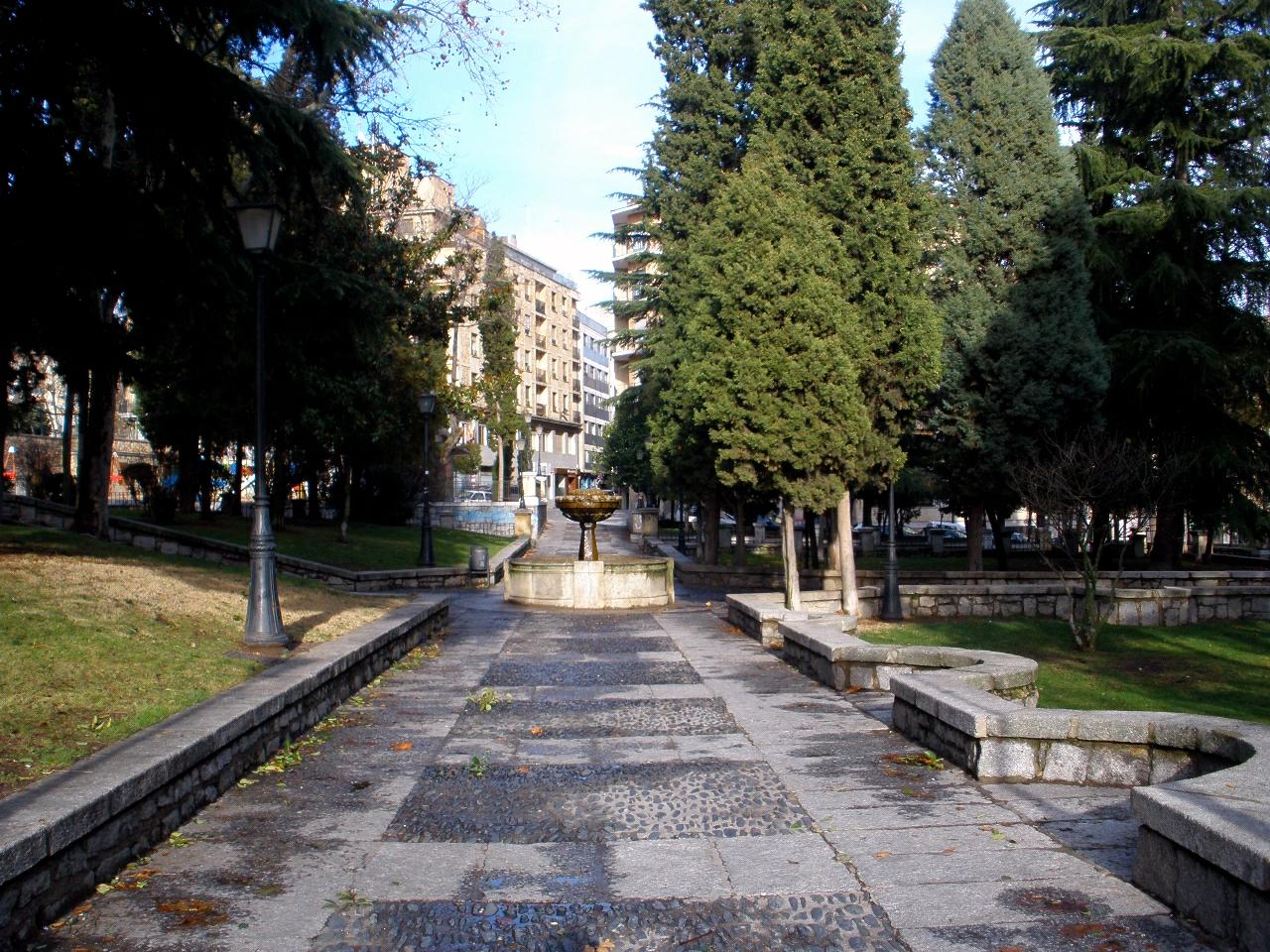 Campo de San Francisco, en Salamanca